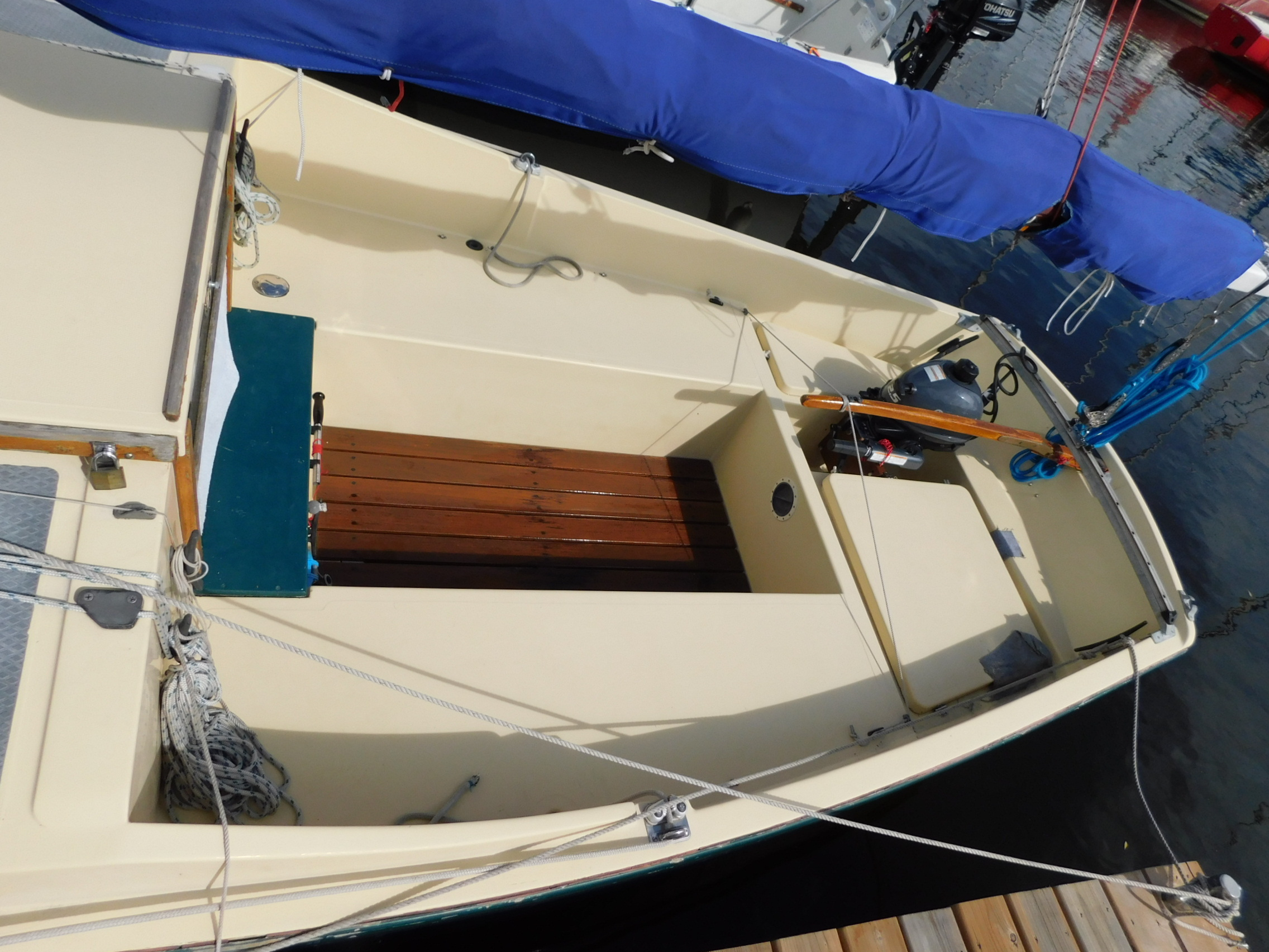 A Cornish Shrimper 19 sailboat named Starfish, showing cockpit detail.